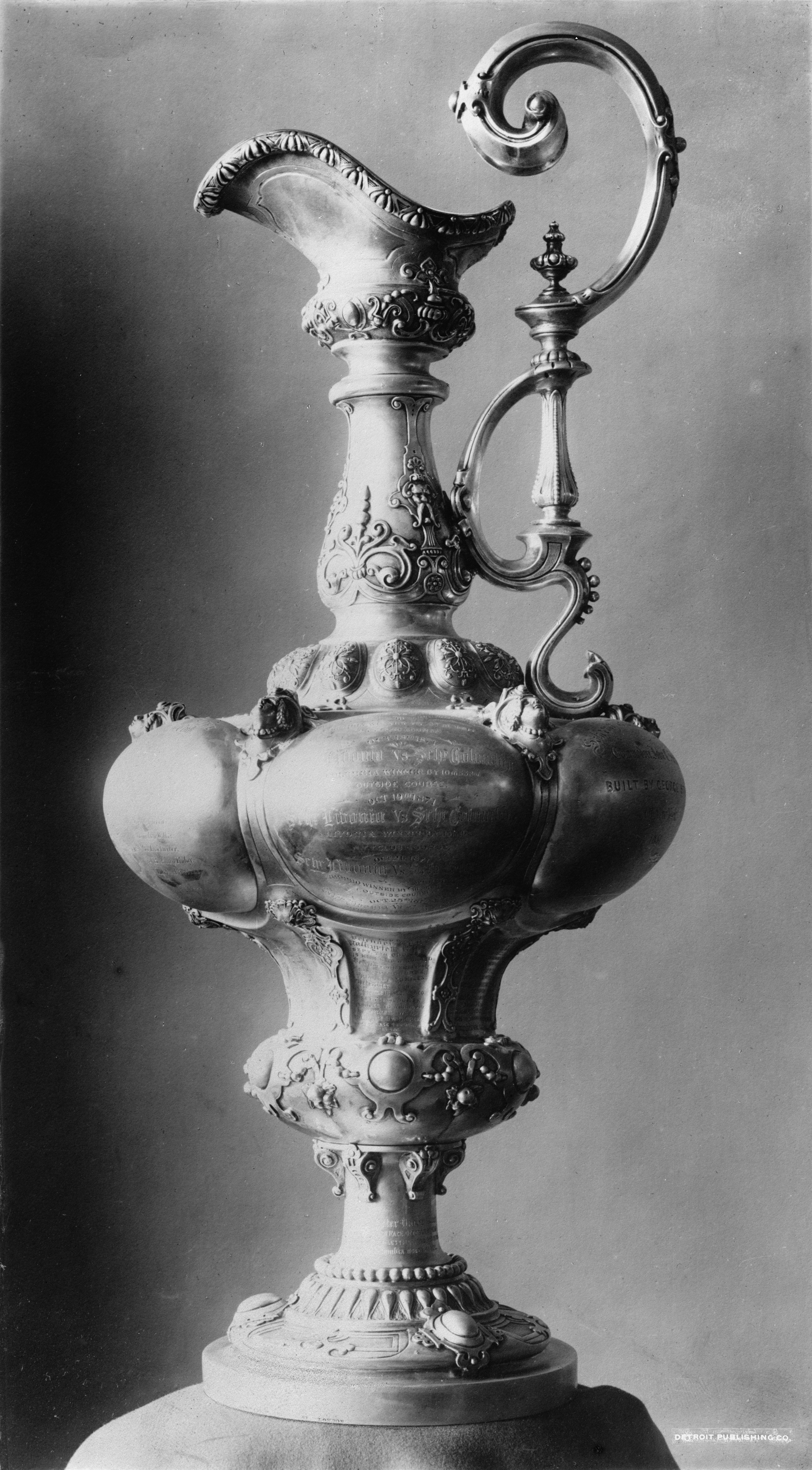 The America's Cup